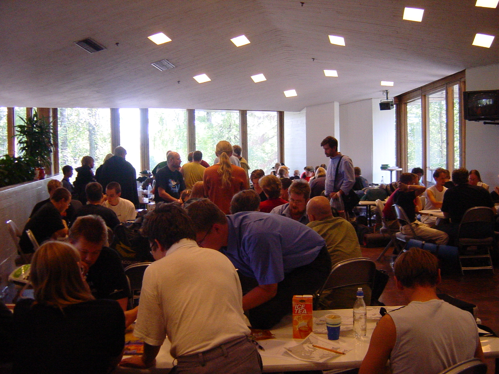 Gamers at the Ropecon gaming convention in Espoo, Finland, July 2003.